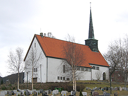 Ranheim kirke, Trondheim Norway.